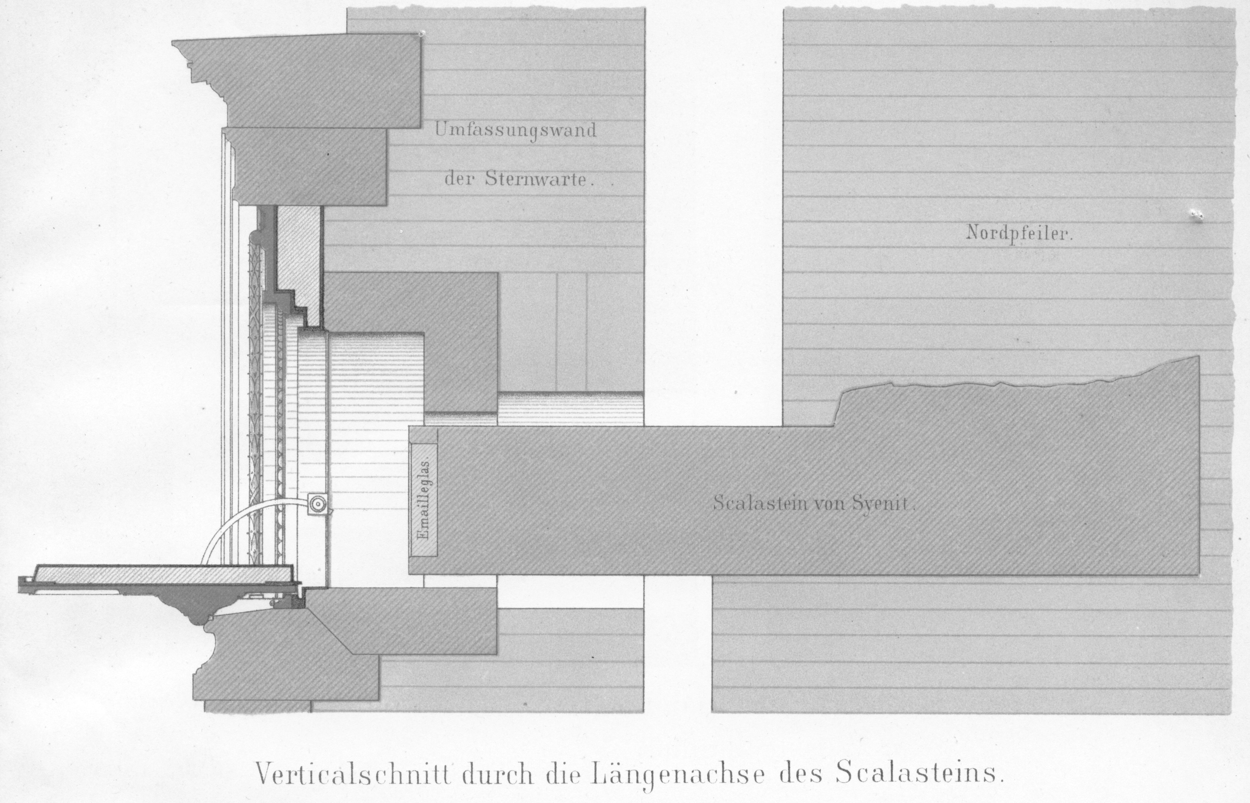 Mean sea level benchmark 1879, vertical section